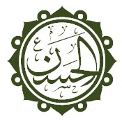 Name of Shiite Imam Hasan ibn Ali